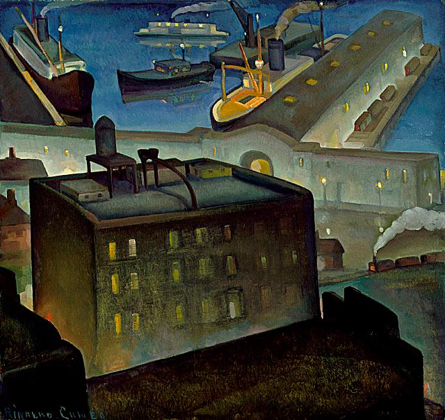 Rinaldo Cuneo, The Embarcadero at Night, circa 1927-1928, oil on plywood, 34 x 36 in. (86.4 x 91.4 cm), Los Angeles County Museum of Art